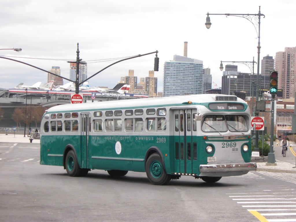 1948 GMC Old Look TDH-5101 #2969 leaves the Circle Line terminal in New York, NY. The bus, originally numbered #4789, is numbered as 2969 in a direct reference to The Honeymooners.